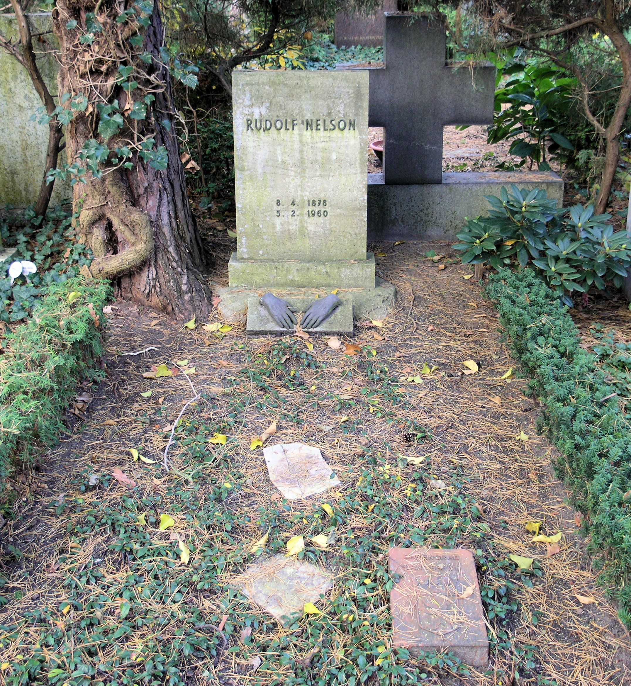 "Ehrengrab" (grave of honor), Rudolf Nelson, Hüttenweg 47, Berlin-Dahlem, Germany Koordinate:52°27′20″N 13°15′49″E / 52.45556°N 13.26361°E